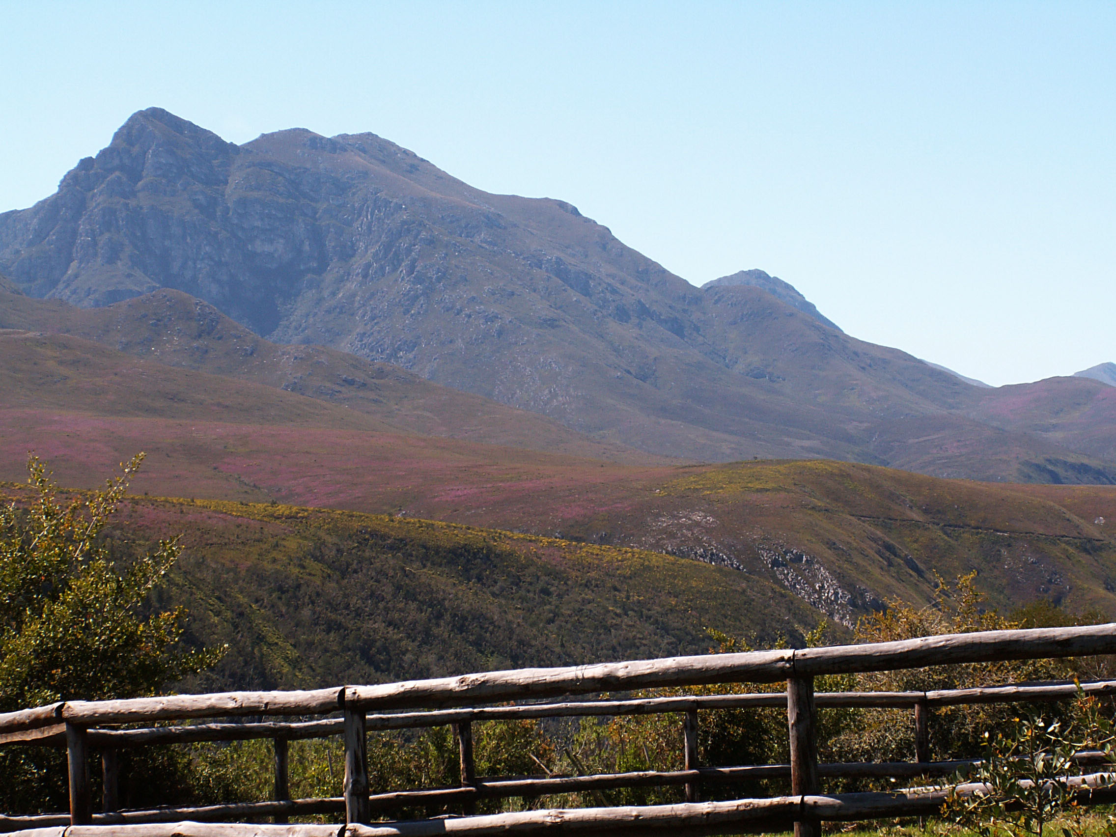 Grootvadersbosch Nature Reserve in the Barrydale area of the Langeberg Range, Western Cape, Southafrica